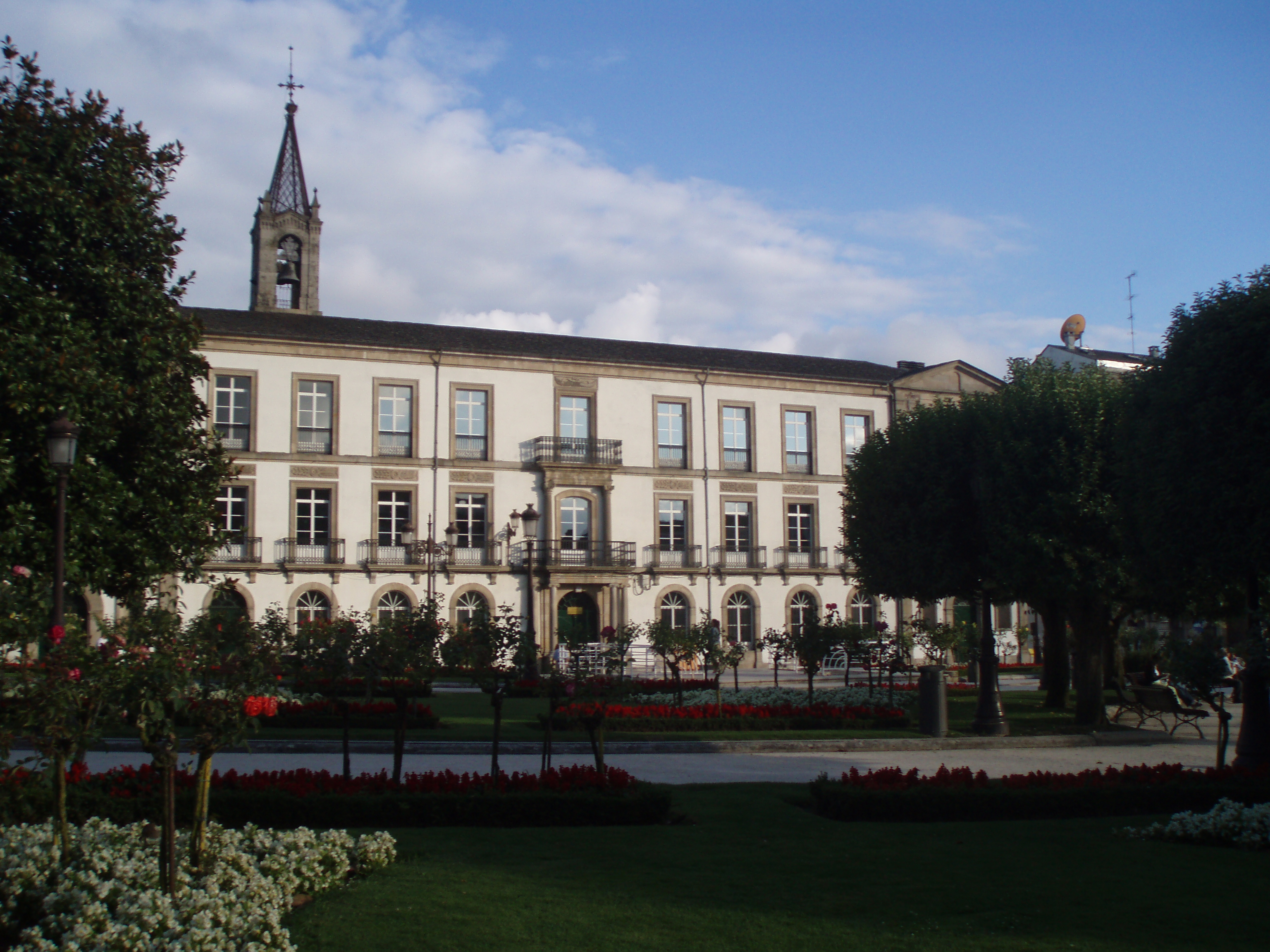 Spain square of Lugo. (Spain).